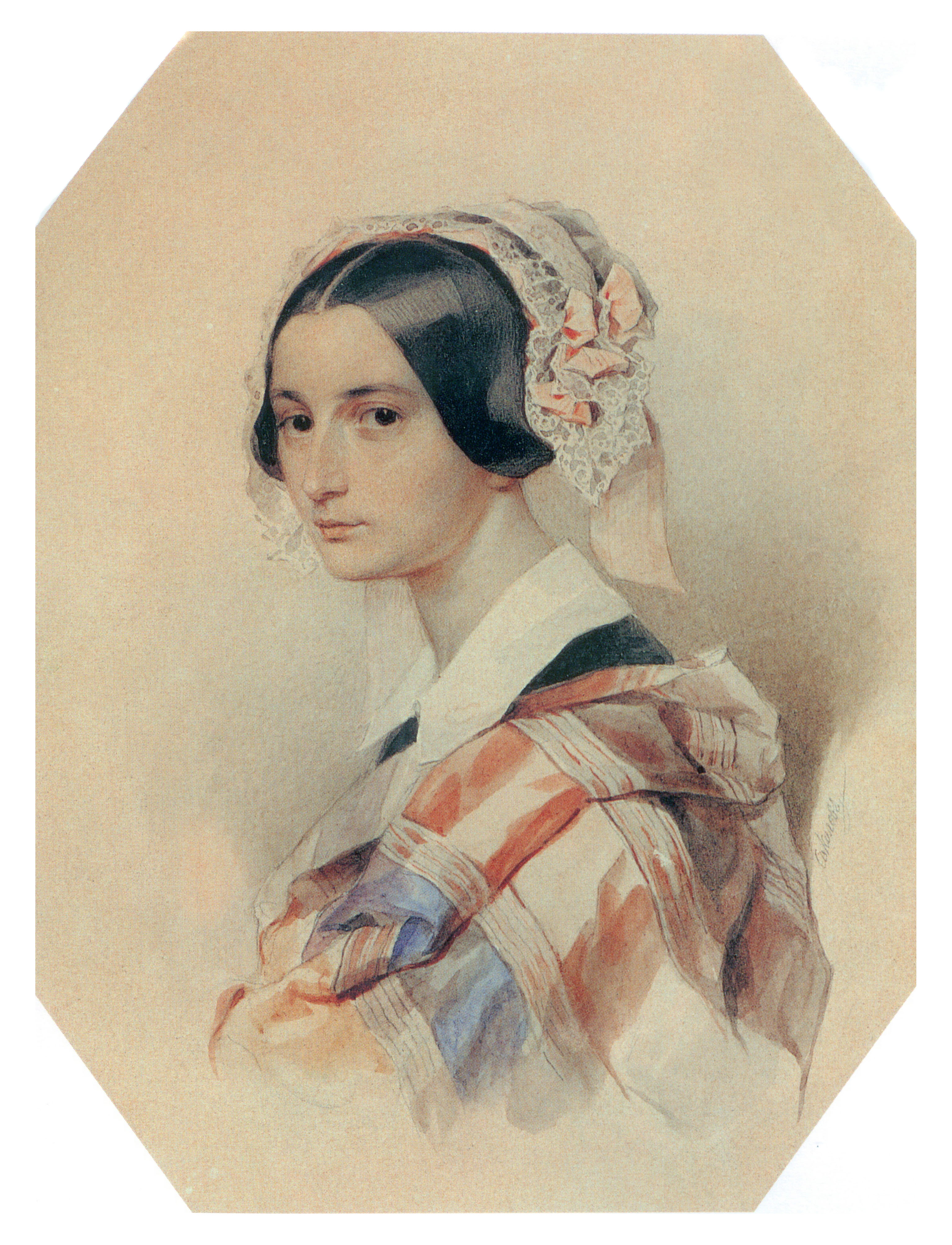 Alexandra Smirnoff née Rosset (Rossetti) watercolor by Peter Sokolov, 1834-1835